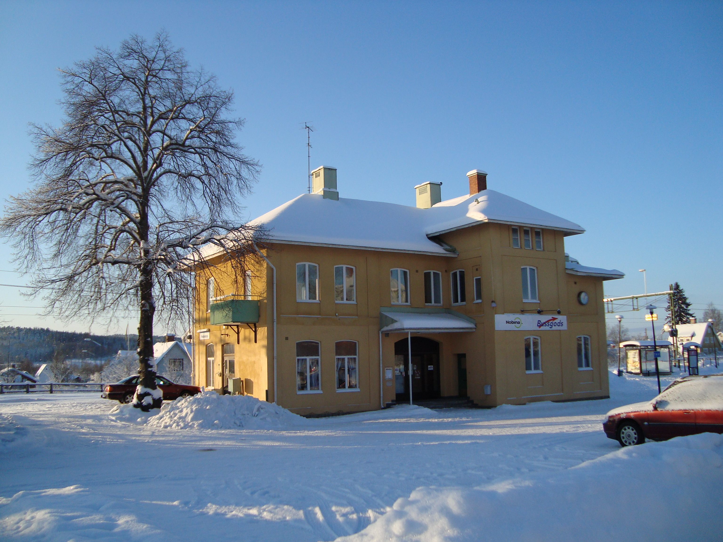 Hedemora train station, Sweden